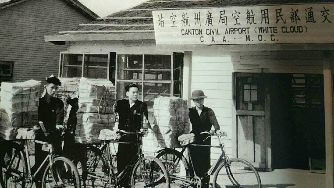 Canton Civil Airport (White Cloud), Civil Aeronautics Administration (CAA), Ministry of Communications (MOC), Republic of China (ROC)